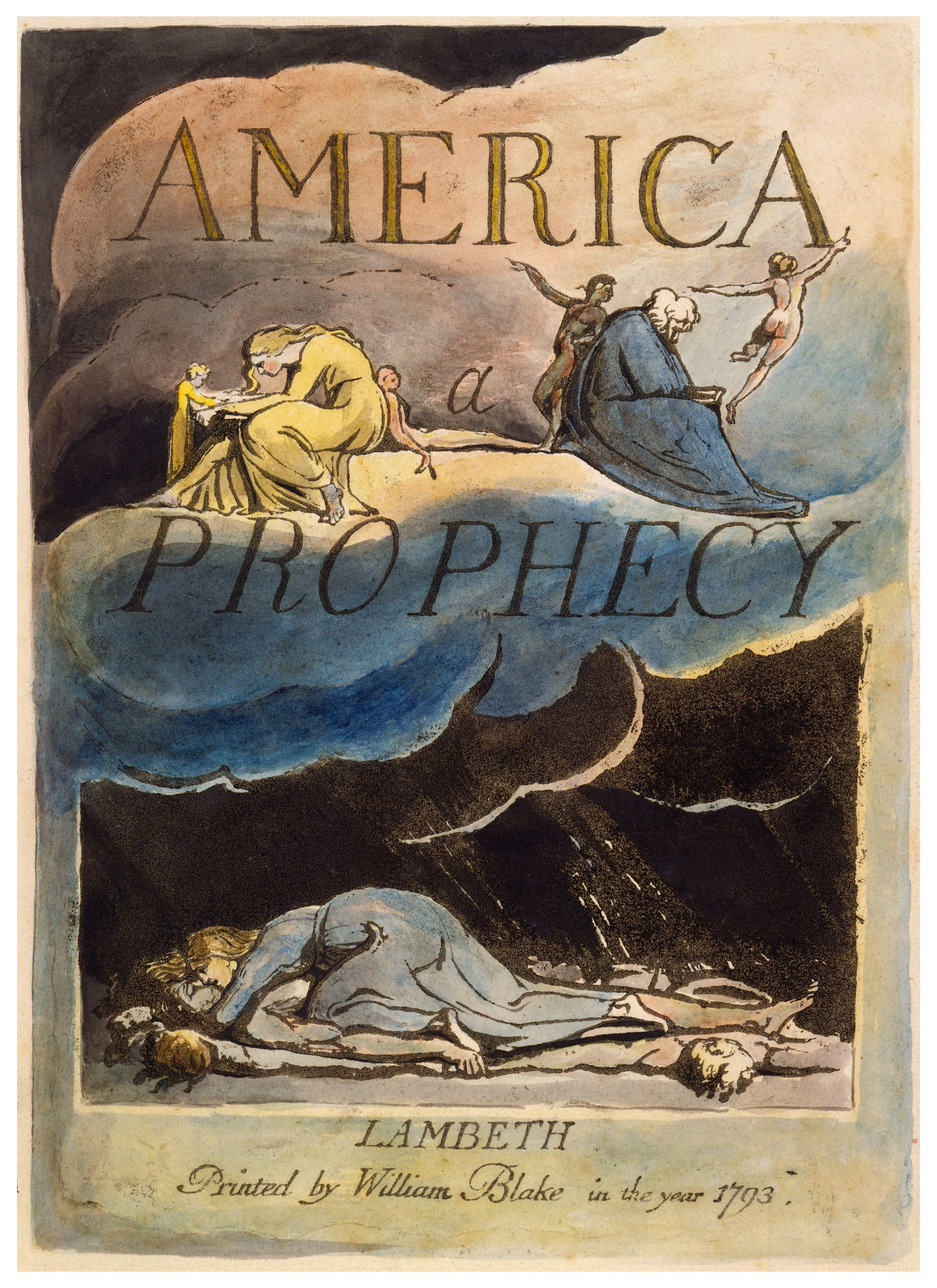 Plate from America a Prophecy, copy A, in the collection of the Morgan Library.